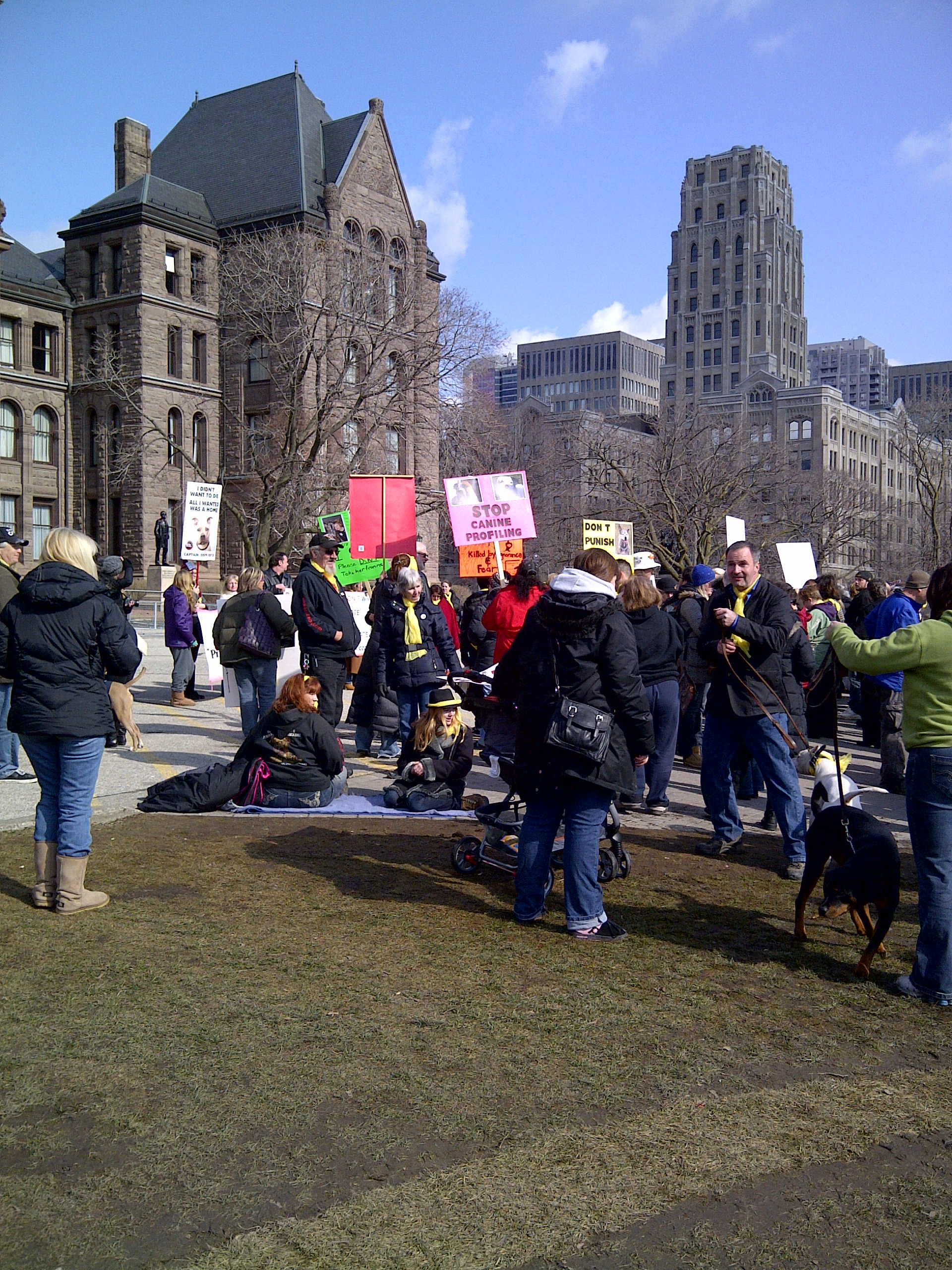 A rally in support of a private member's bill to repeal legislation in Ontario which bans "pit bull"-type dogs. Queen's Park, Toronto, Ontario, Canada.